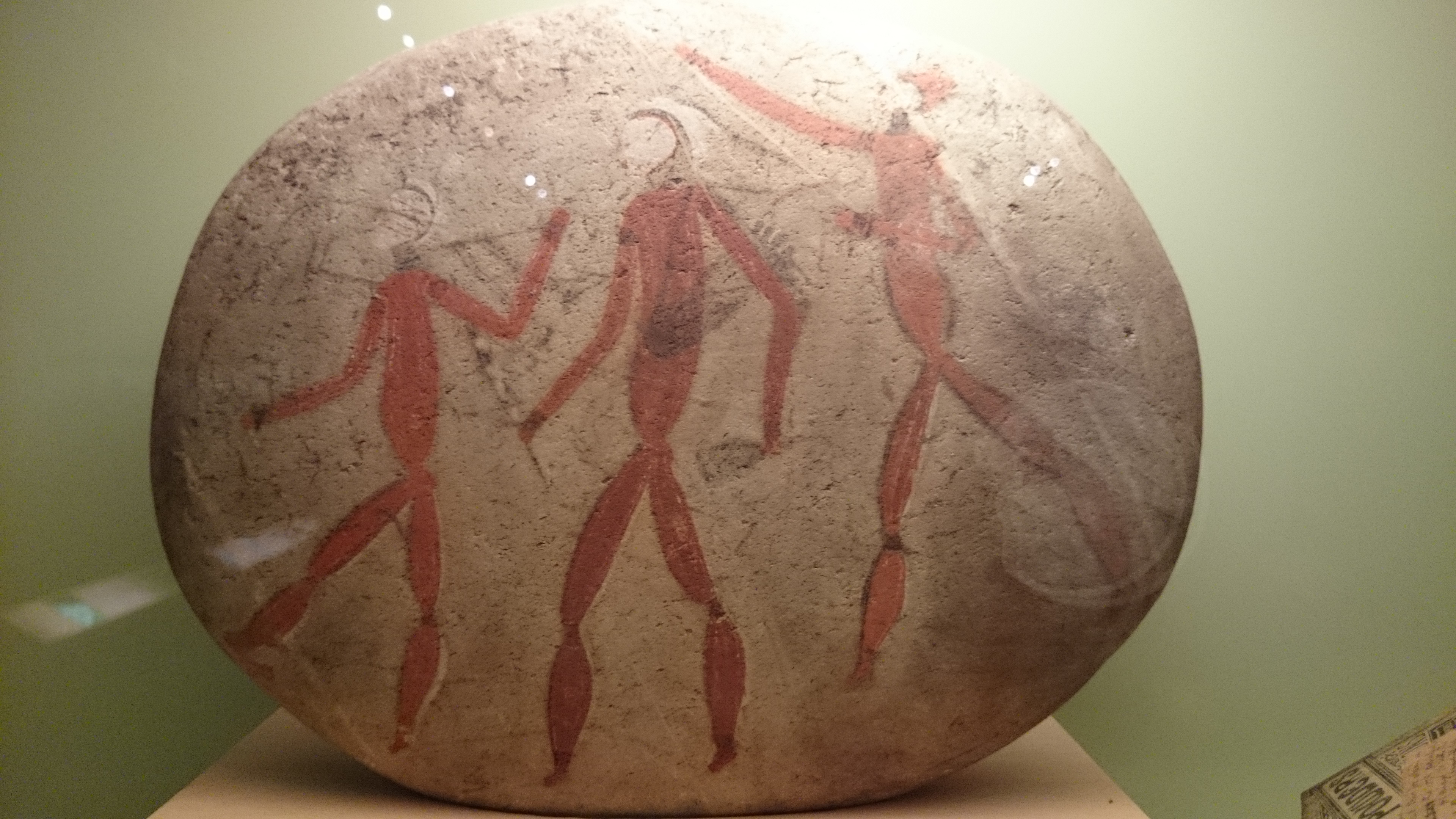 This painted stone was excavated in the early 20th century, from a rock shelter near Coldstream in the Tsitsikamma area of the Eastern Cape The painted images and colors are exceptionally well preserved, probably because the stone was buried in a shelter and not exposed to sunlight or changes in humidity. The painting has not been dated, but is likely to be more than 1,000 years old.